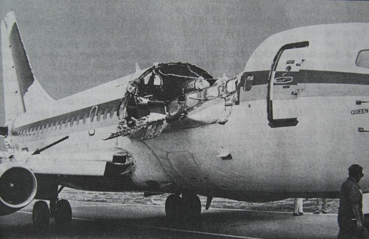 The fuselage of Aloha Airlines Flight 243 after suffering an explosive decompression while in flight on April 28, 1988.